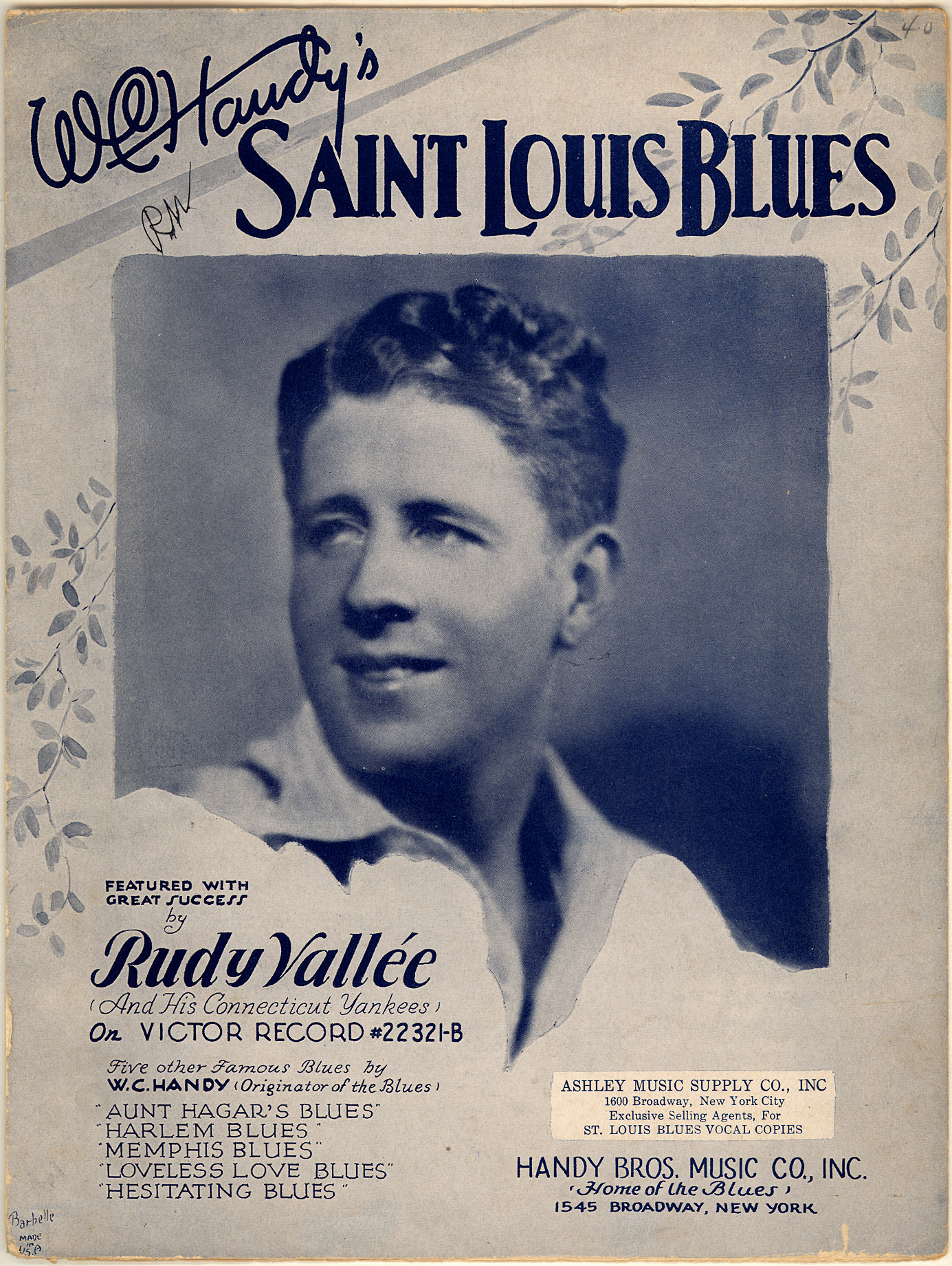 Sheet music of W. C. Handy's "St. Louis Blues". Page 1 of 5.